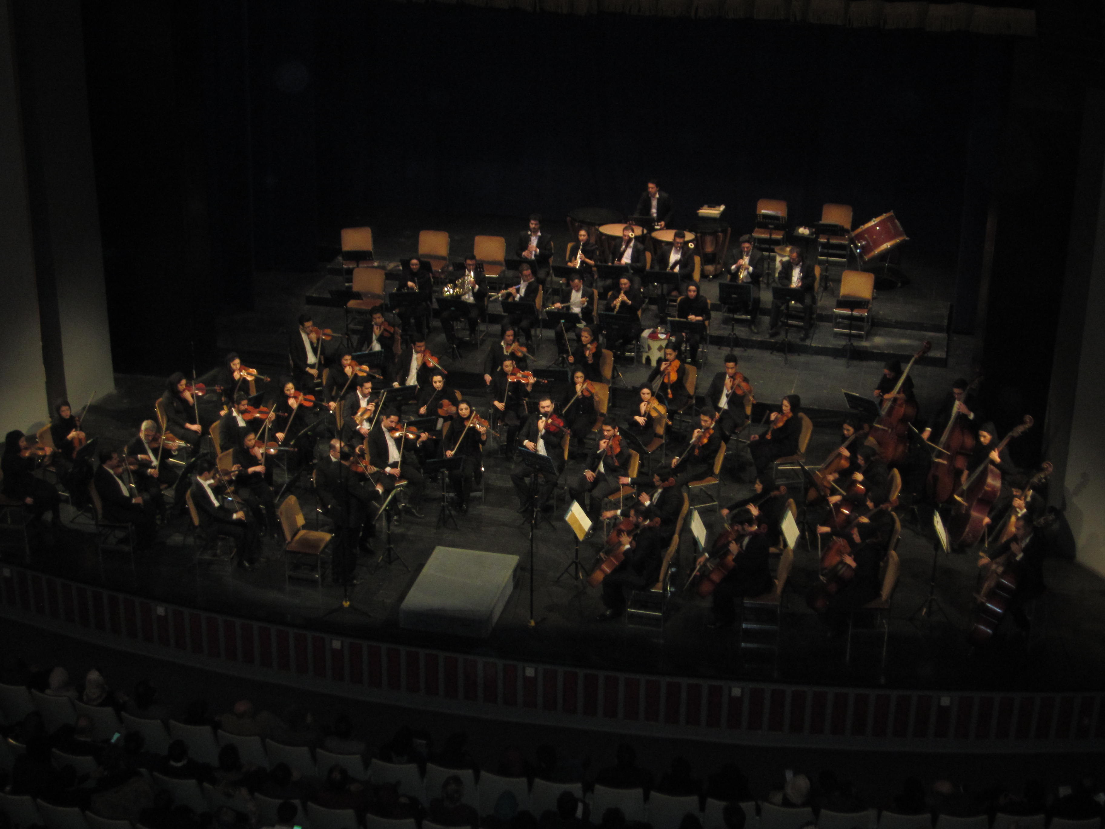 Tehran Symphony Orchestra in Vahdat Hall